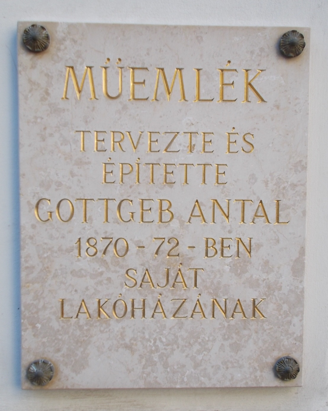 Former? HQ of the National Cultural Fund of Hungary. Listed, ecclectic cornerhouse, built to Antal Gottgeb by Antal Gottgeb in 1872. - 13 Gyulai Pál street, Palotanegyed neighborhood, Budapest District VIII.